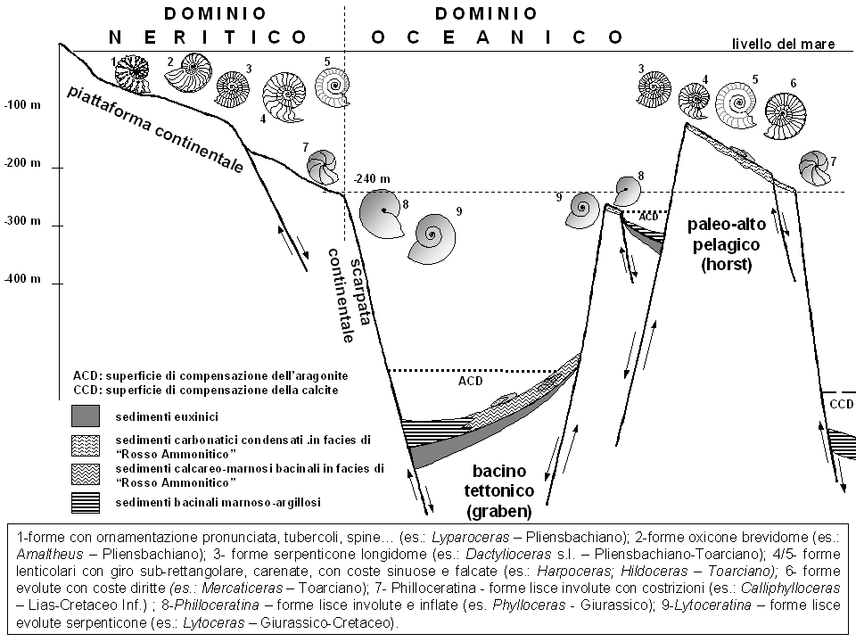 generalized paleoenvironmental scheme of ammonites in Early Jurassic between the boreal (i.e. central-western Europe)and the tethyan (i.e. "mediterranean") domains. Synthesis from several authors, mainly Donovan, Callomon & Howarth (1981). Text in italian.